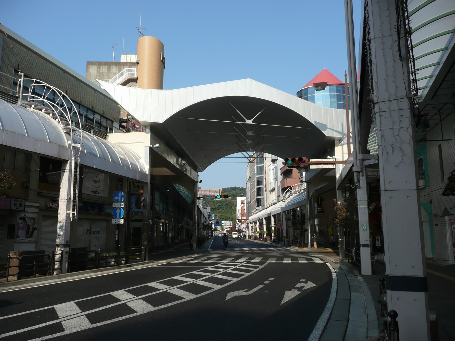 National Route 225 - Nakamachi Crossing in Central Kagoshima City (Tenmonkan), Japan.